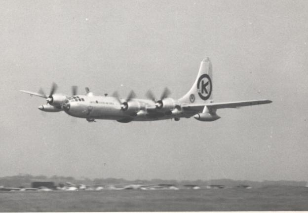 Boeing B-50D Superfortress 47-101 of the 15th Air Force displaying at Leeds Yeadon airport